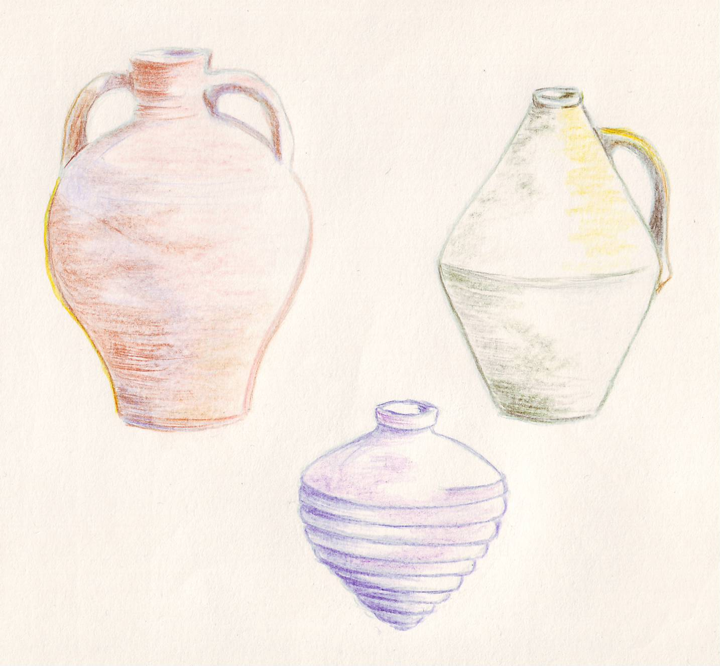 Three modelos de 'cántaros' of Spanish traditional pottery. Drawing of C.F.